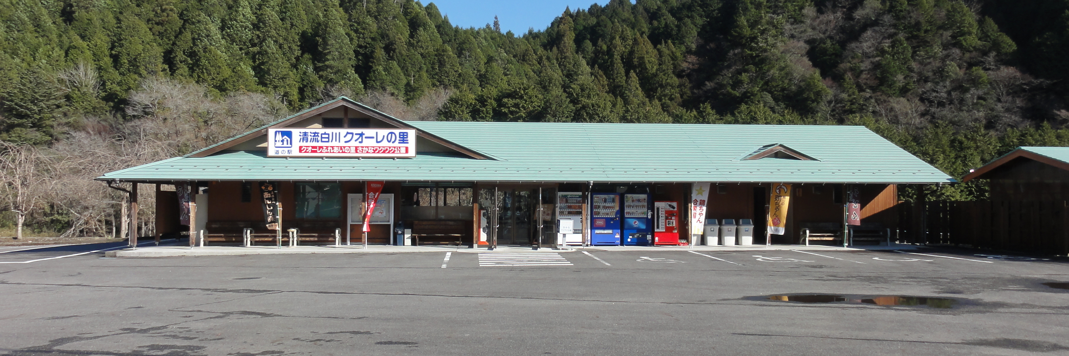 Road to station Seiryu-Shiraka Cuore no sato,Gifu prefecture,Japan